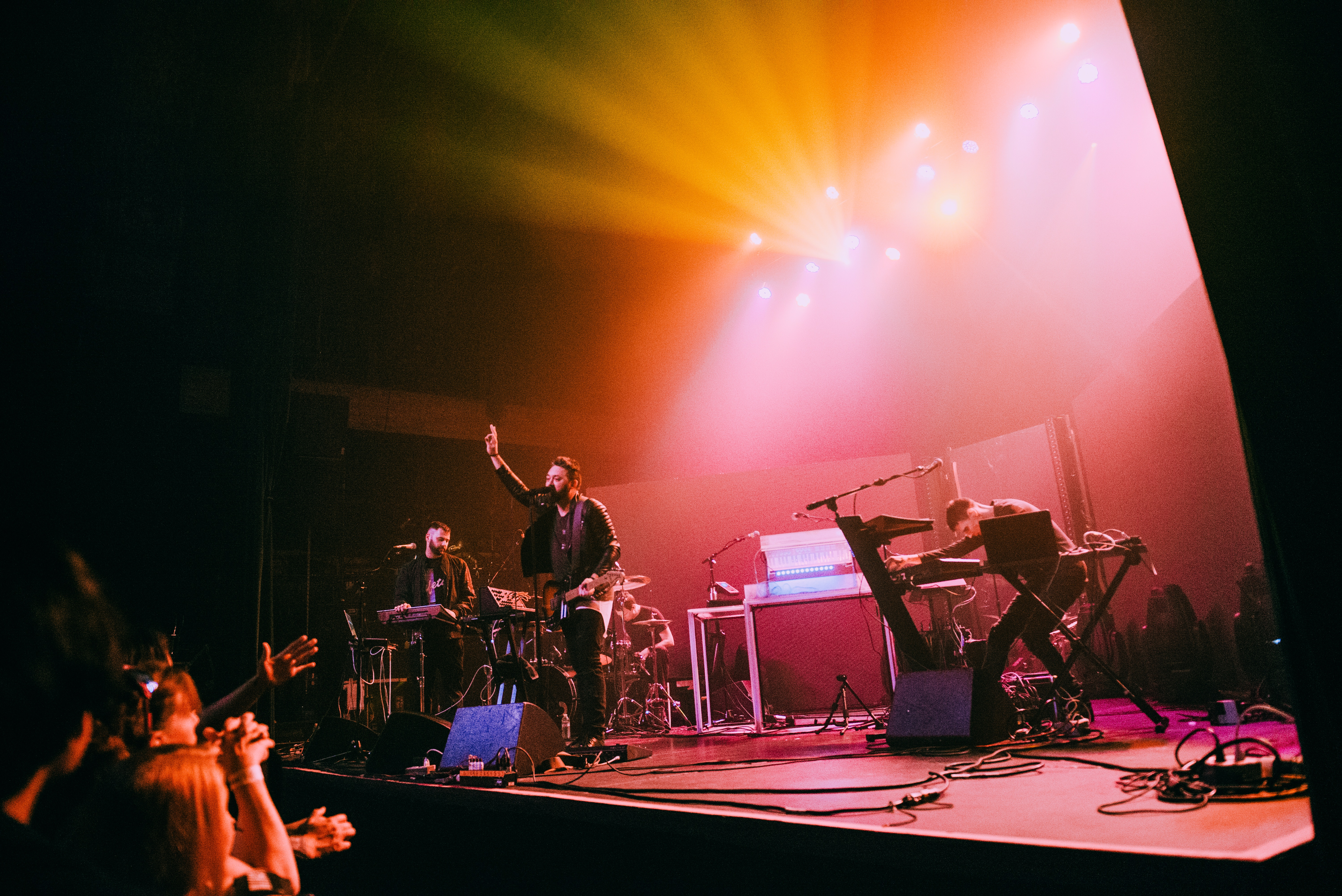 Photo by Heather Hawke